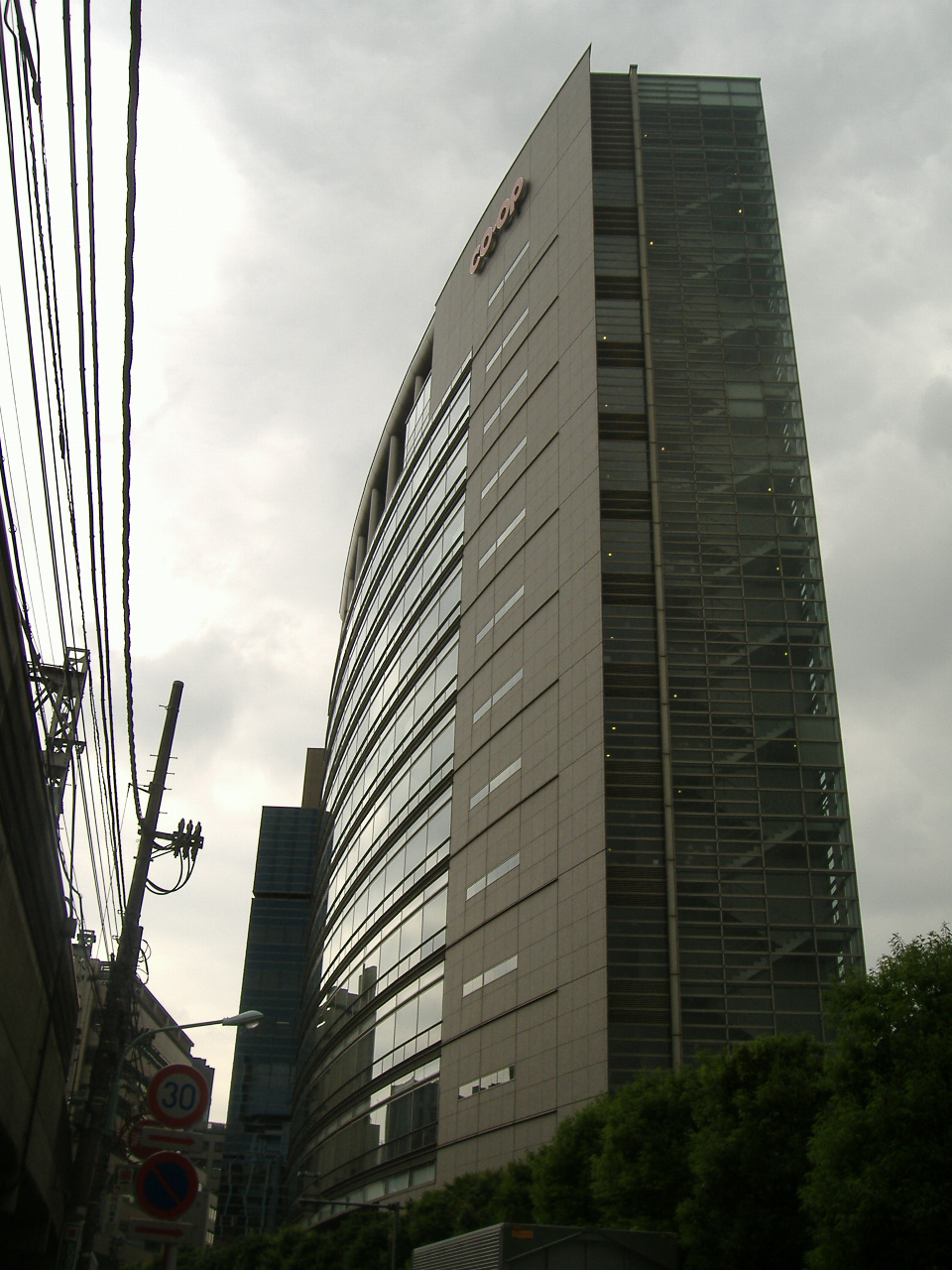 Japanese Consumers' Co-operative Union, Headoffice (Tokyo, Japan)